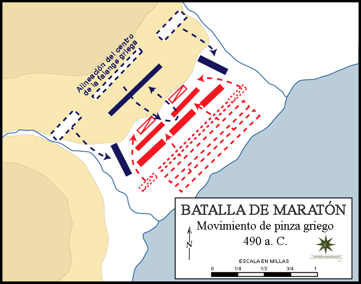 Map of the Greek double envelopment in the battle of Marathon. Map Courtesy of the Department of History, United States Military Academy. (labels in Spanish)